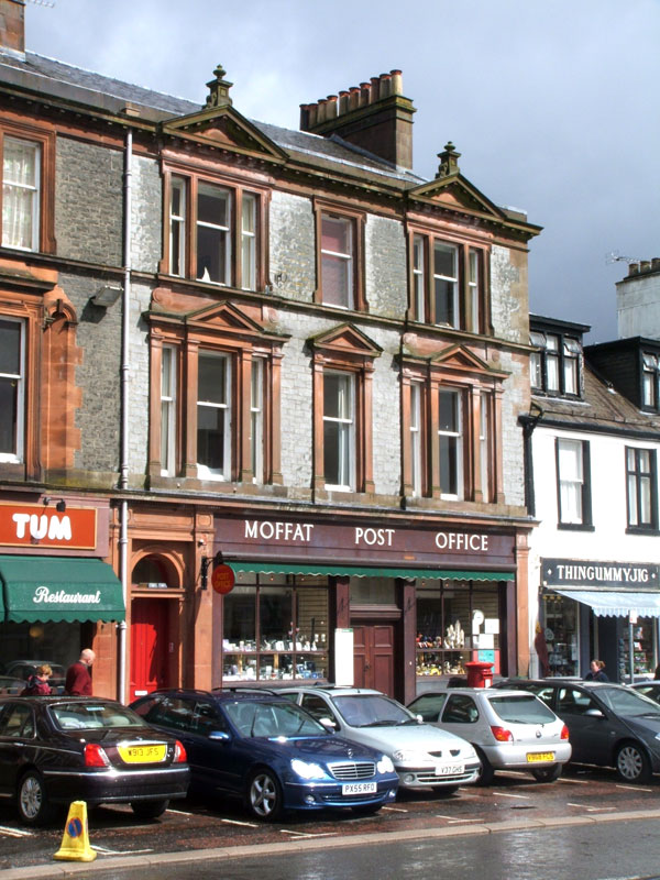 Taken and donated by user:Guinnog